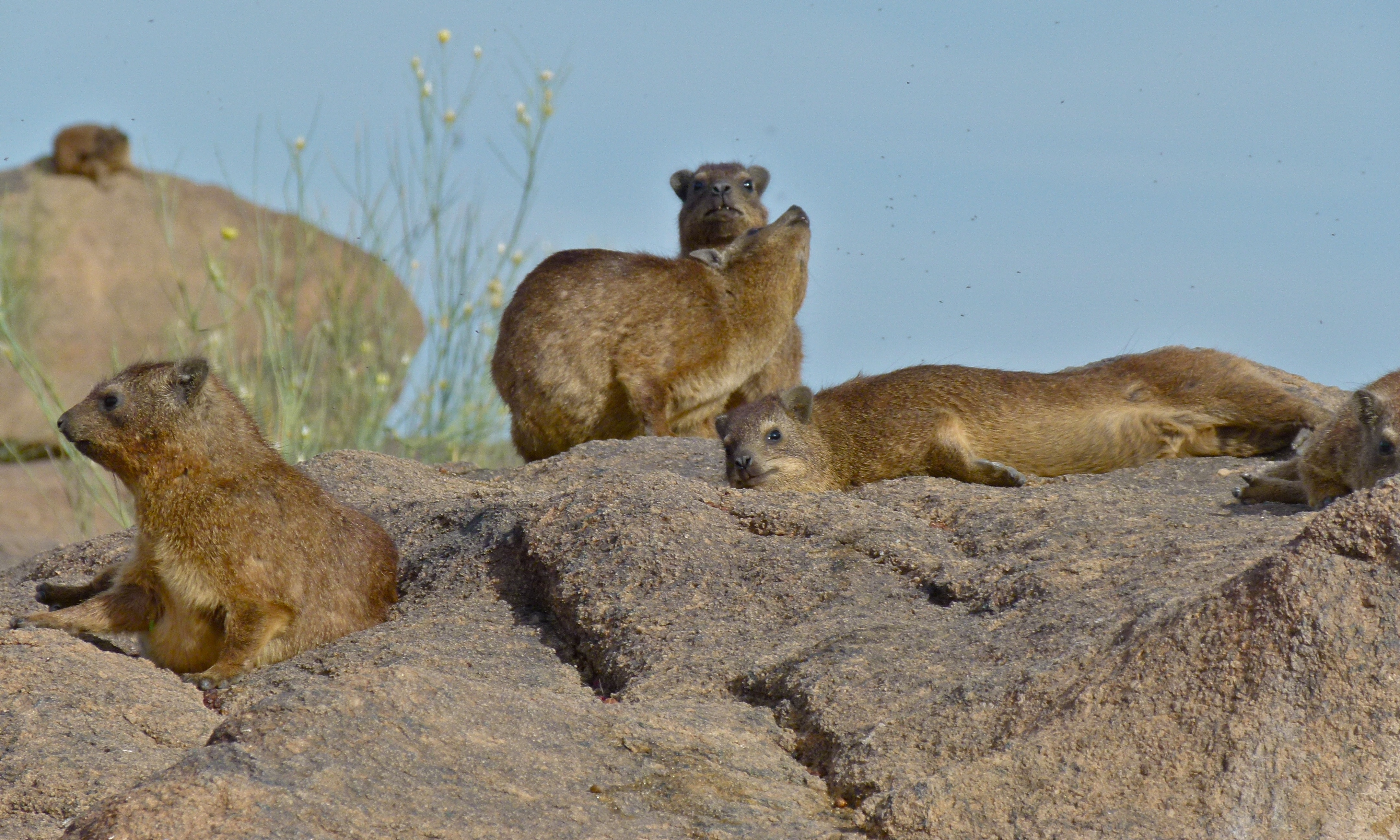 Augrabies National Park, SOUTH AFRICA